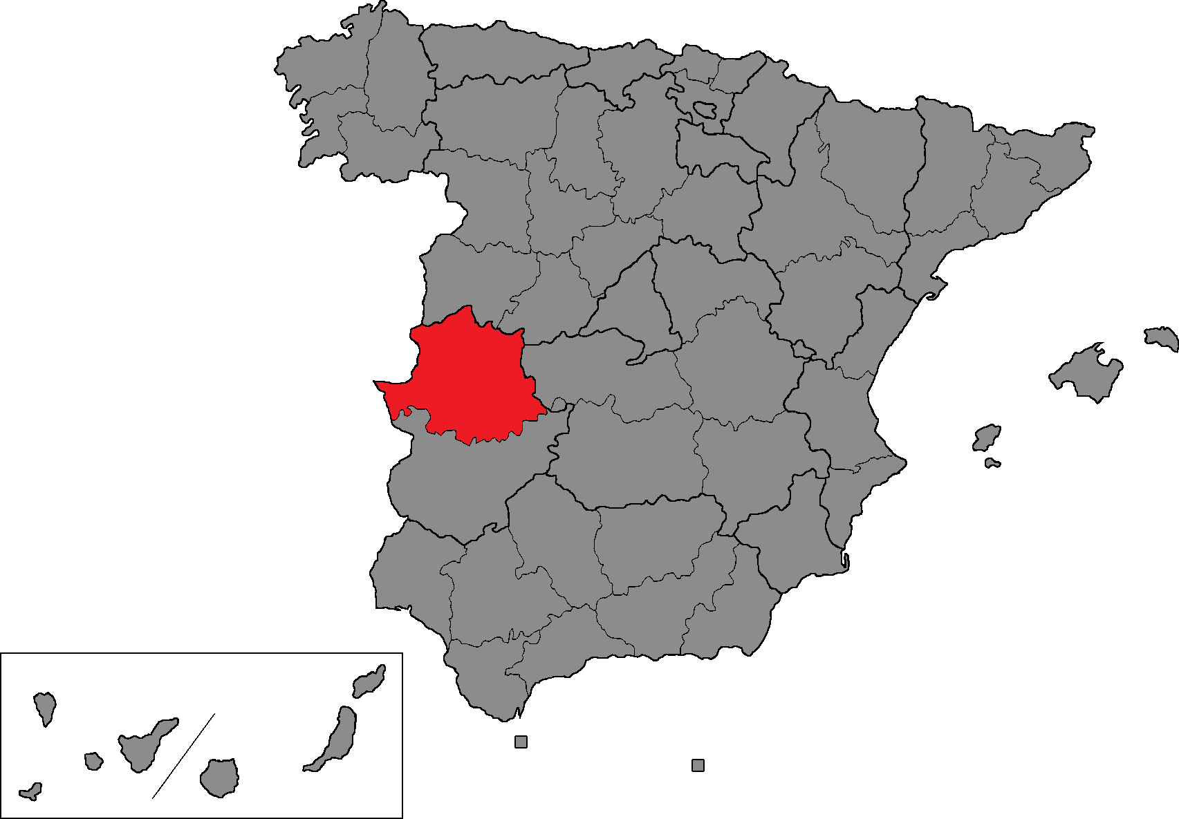 Spanish Congress of Deputies district of Cáceres.